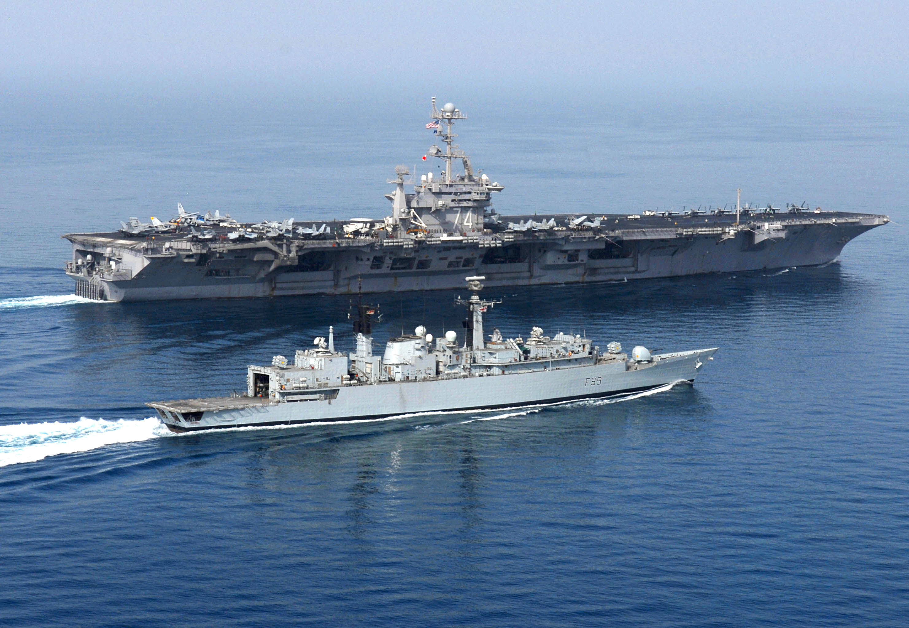 PERSIAN GULF (May 29, 2007) - British frigate HMS Cornwall (F 99) approaches Nimitz-class aircraft carrier USS John C. Stennis (CVN 74) to provide plane guard support to the carrier during flight operations. Plane guard is a position where a ship provides support to the carrier in case of a man overboard or other incident. John C. Stennis Carrier Strike Group is conducting operations in support of the global war on terrorism and is participating in an Expeditionary Strike Force exercise with Nimitz Carrier Strike Group, and Bonhomme Richard Expeditionary Strike Group. U.S. Navy photo by Mass Communication Specialist 2nd Class Ron Reeves (RELEASED)